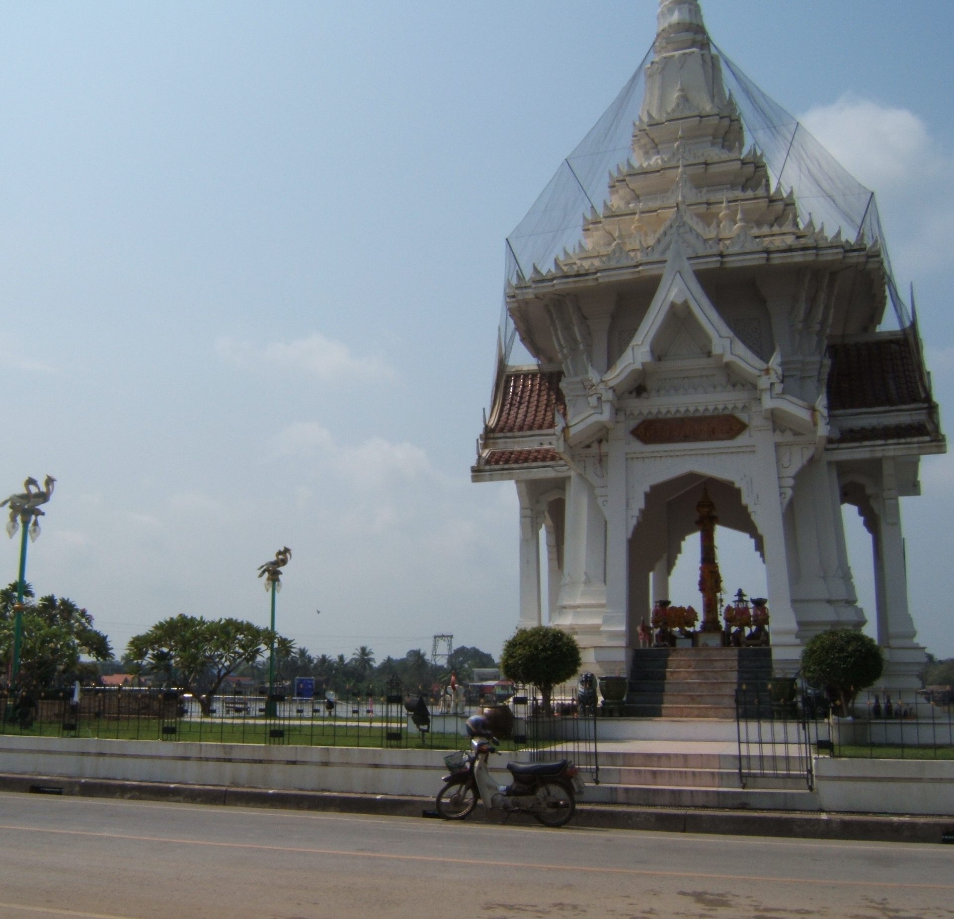 Lak Mueang in Chainat, Thailand